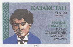 Stamp of Kazakhstan